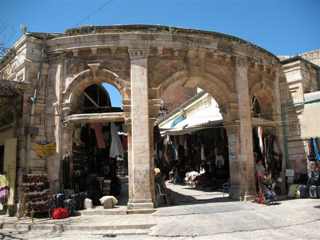 Muristan, Jerusalem: north entrance to the Suq Aftimos.